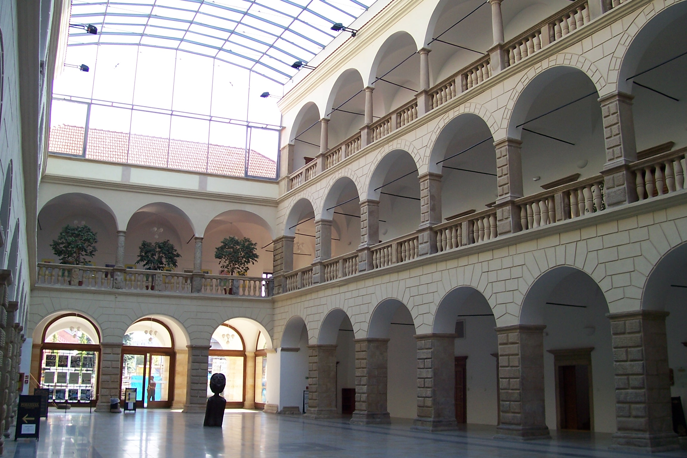 Hranice in Přerov District, Czech Republic. Courtyard of the castle.